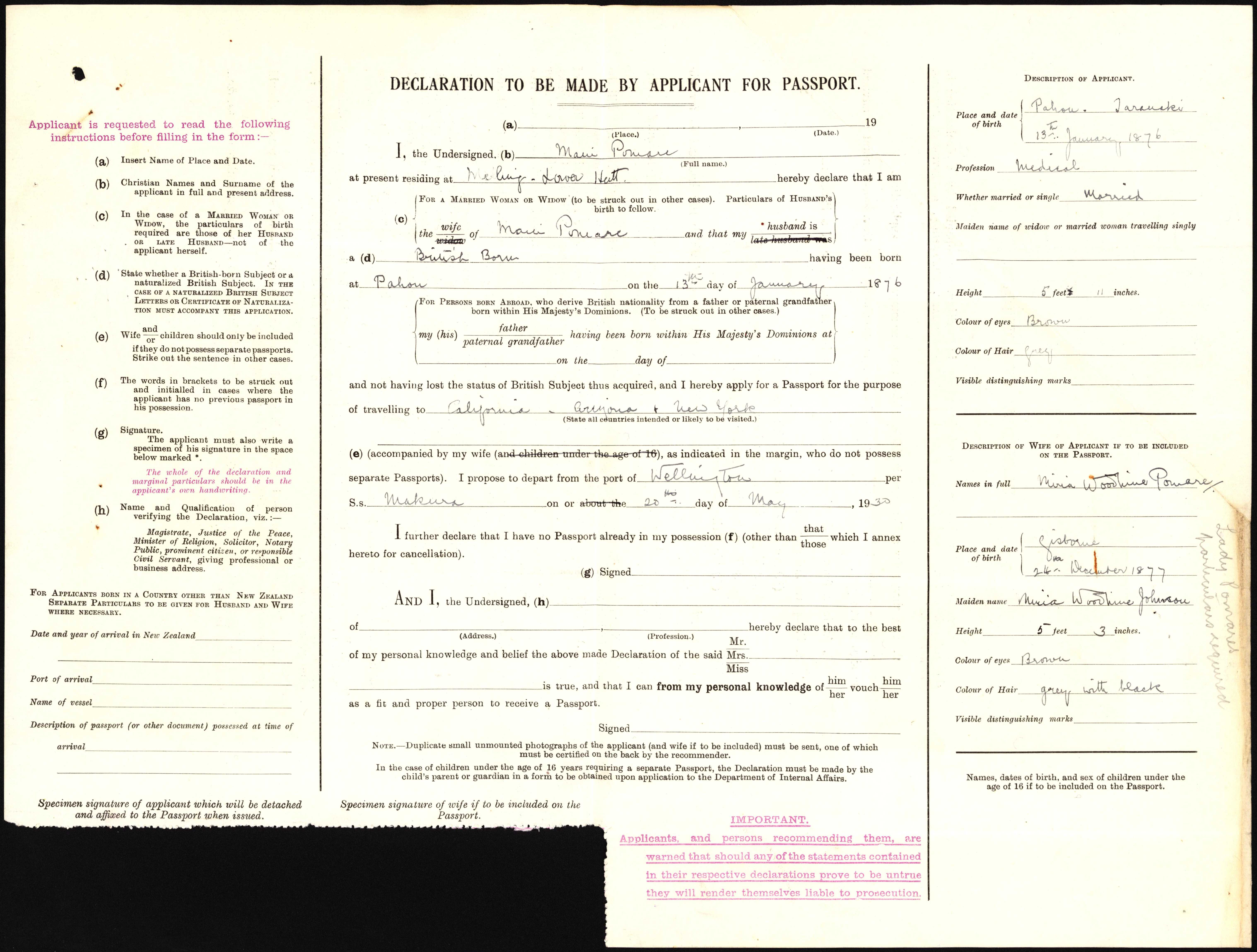 Archives New Zealand Reference: ACGO 8333 IA1 1350 / 15/11/32815